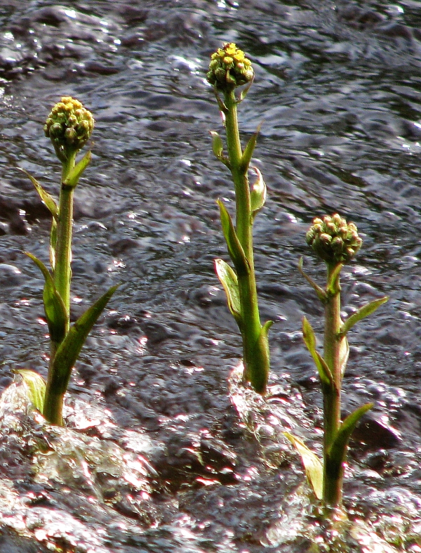 Petasites sp. Flowering plants. Russia, Komi Republic, Domanik - small river near Ukhta